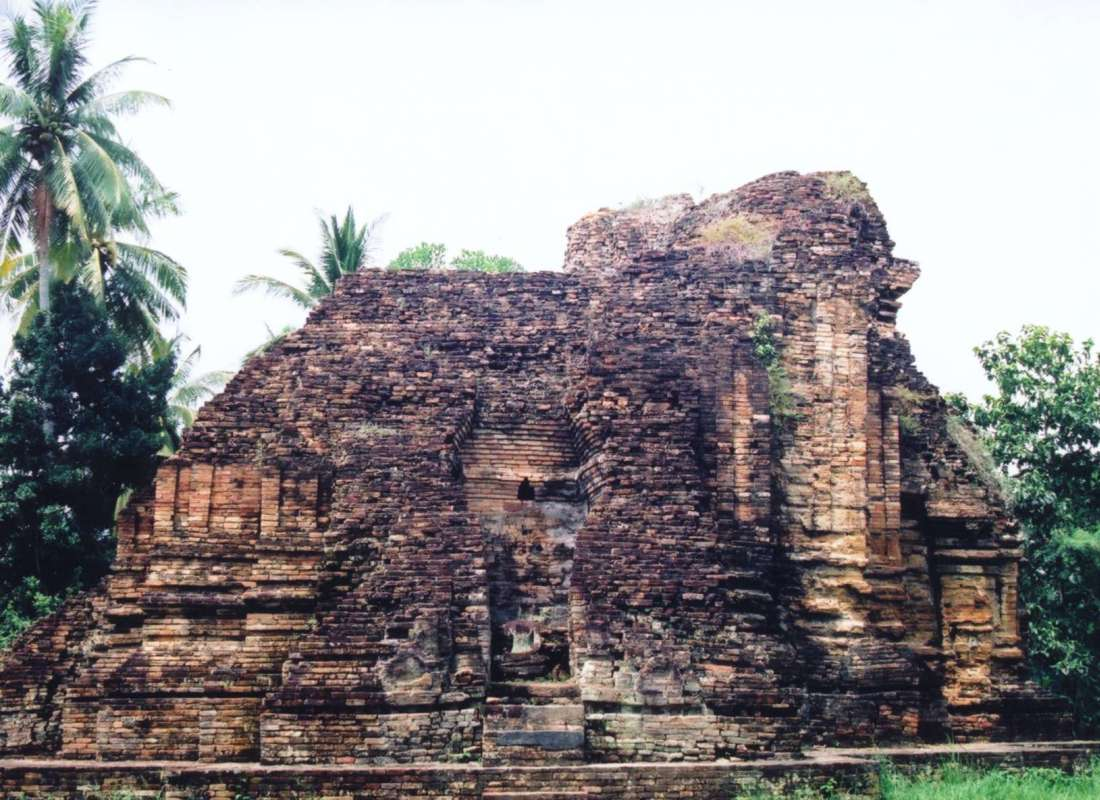 Ruins of Wat Kaew (วัดแก้ว), also known as Wat Ratanaram (วัดรัตนาราม), Chaiya, Surat Thani province, Thailand Photo taken by User:Ahoerstemeier on June 28, 2003.